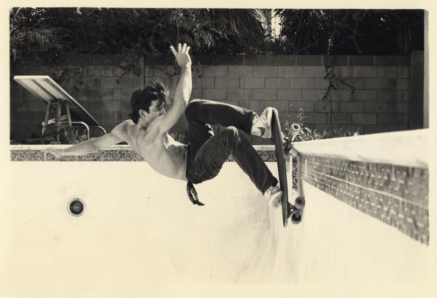 1980 OG Hackett Slash